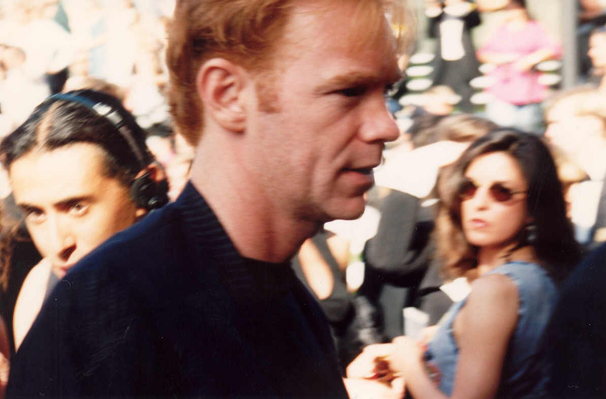 David Caruso on the red carpet at the Emmys 9/11/94